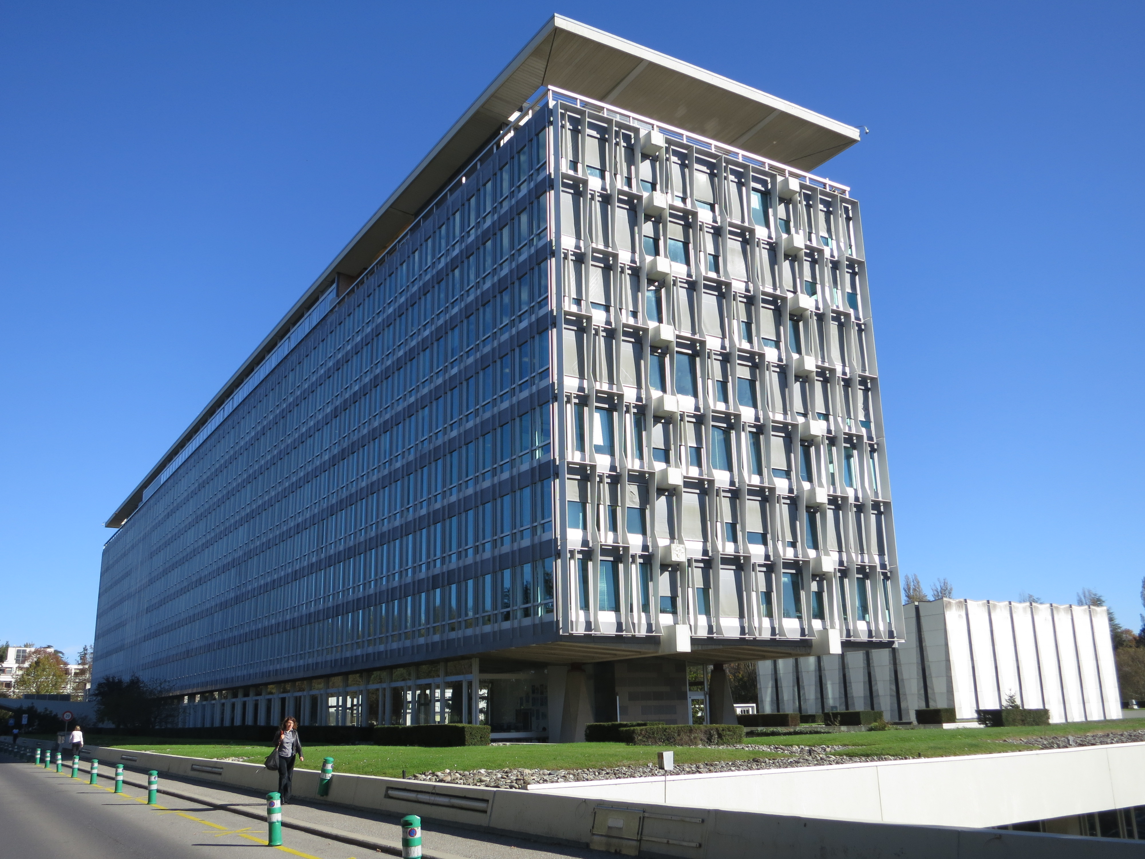 WHO HQ main building, Geneva, from West